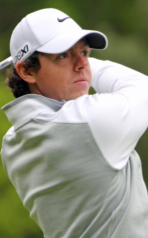 Rory McIlroy finishes an iron shot during a practice day for the 2013 BMW PGA Championship at Wentworth Club.